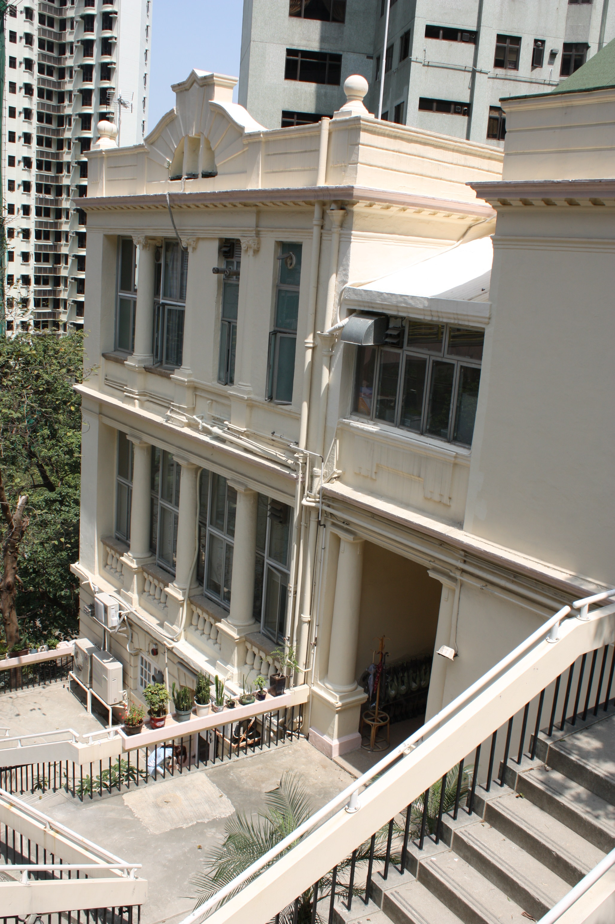 Ex-Commodore's House Hong Kong